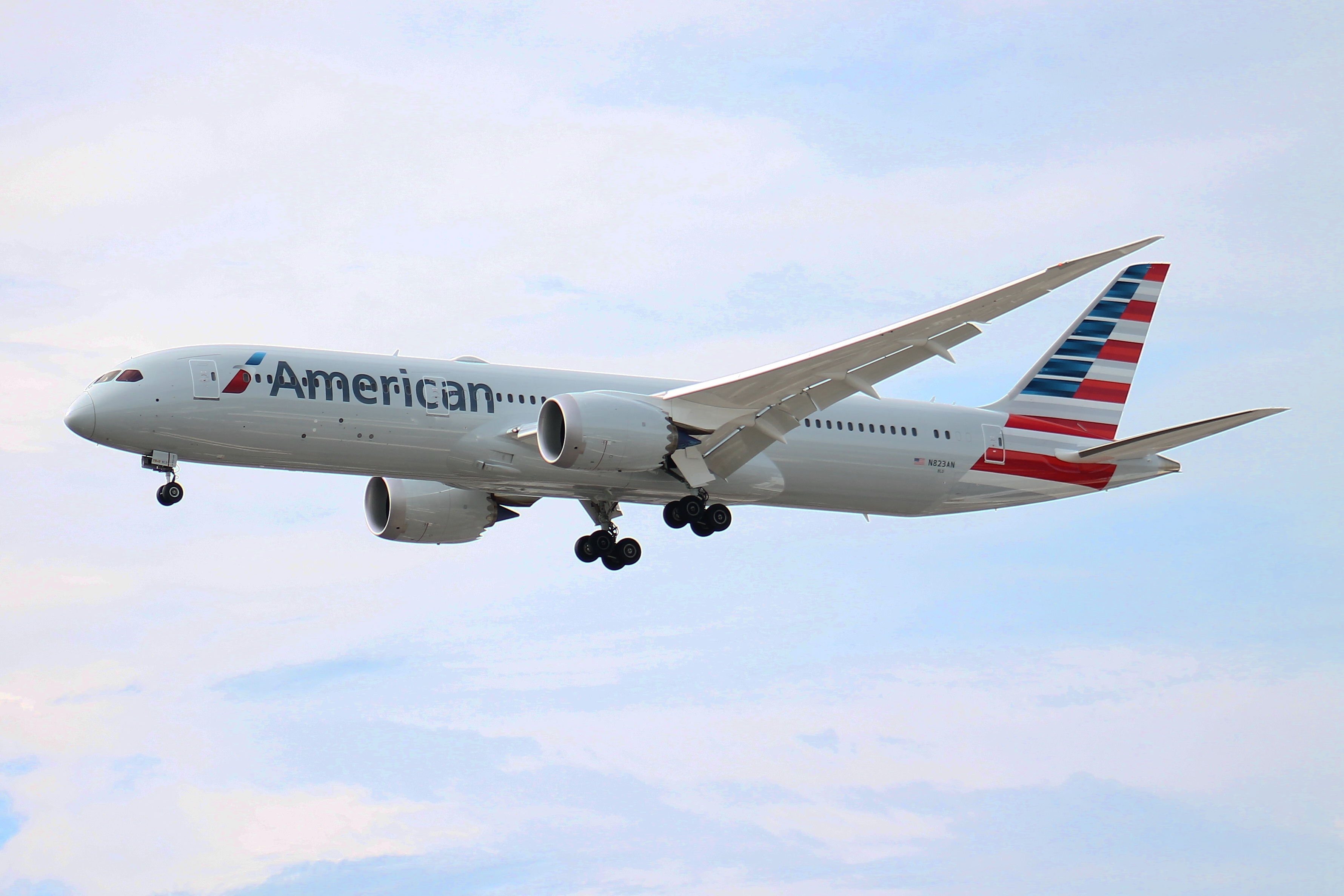 American Airlines Boeing 787-9 at São Paulo-Guarulhos International Airport